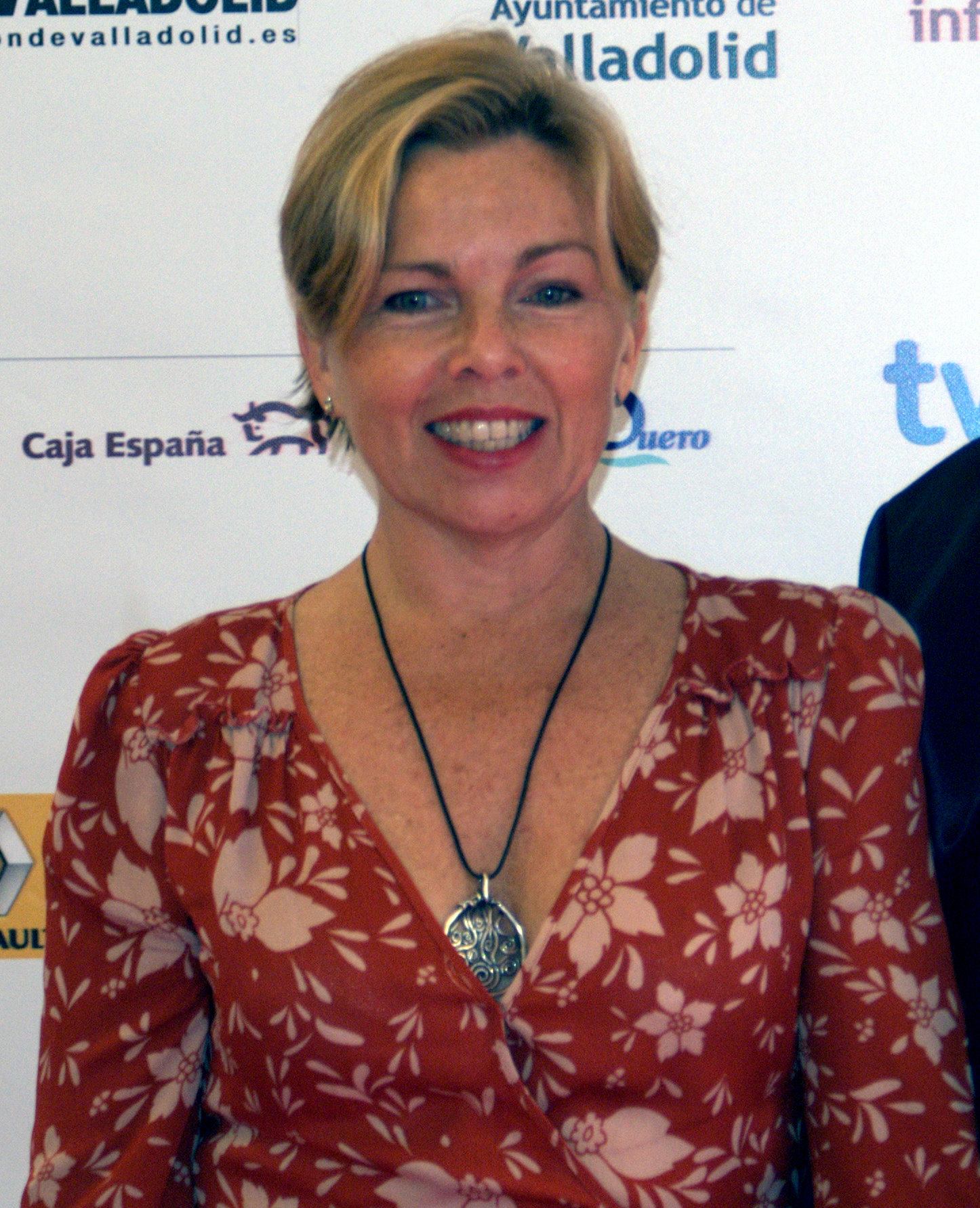 Görel Crona, Swedish actress.